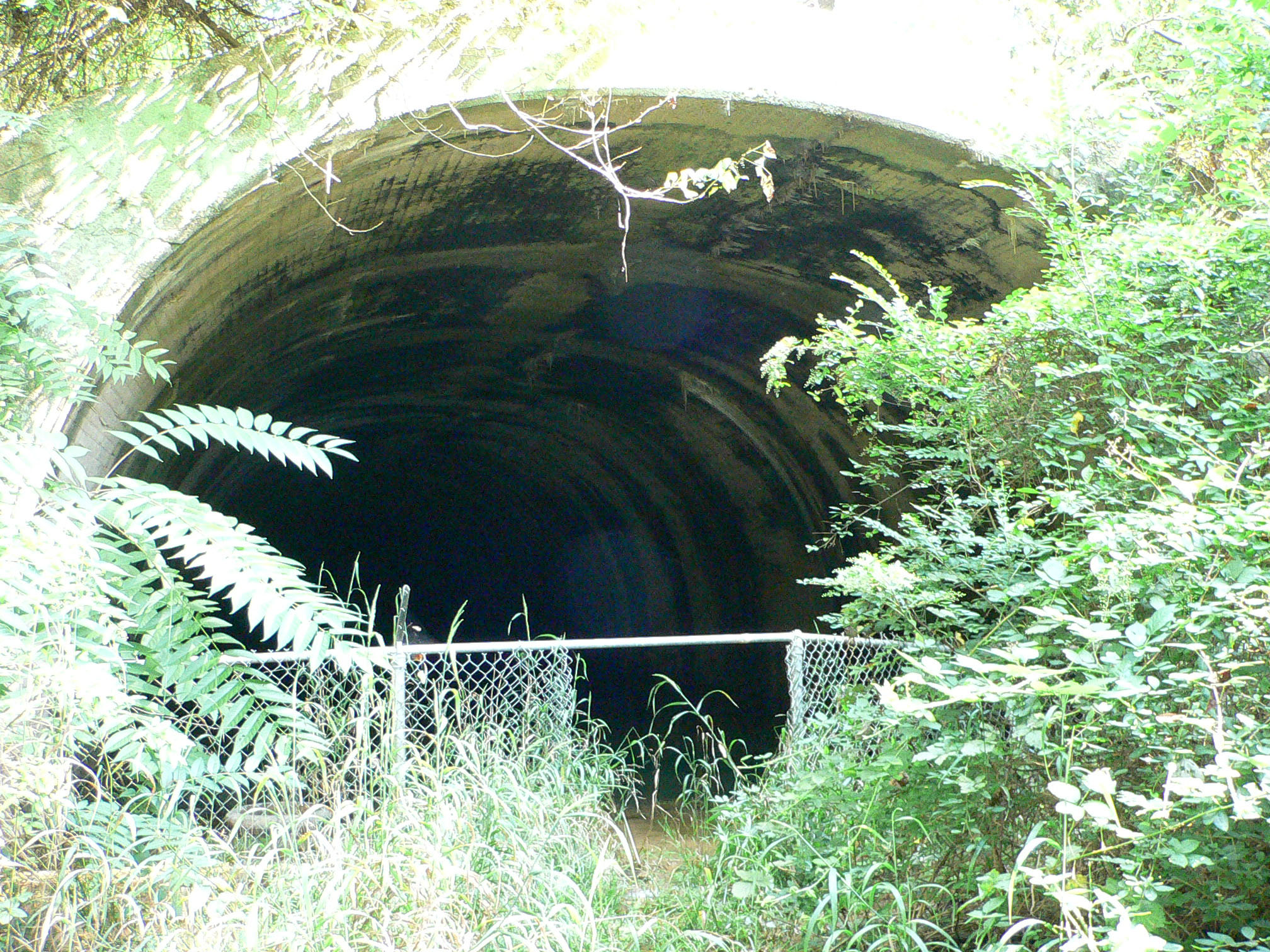 The eastern entrance to the Church Hill tunnel in Richmond, Virginia, in 2010. The tunnel collapsed in 1925, but this end is still open for some distance.